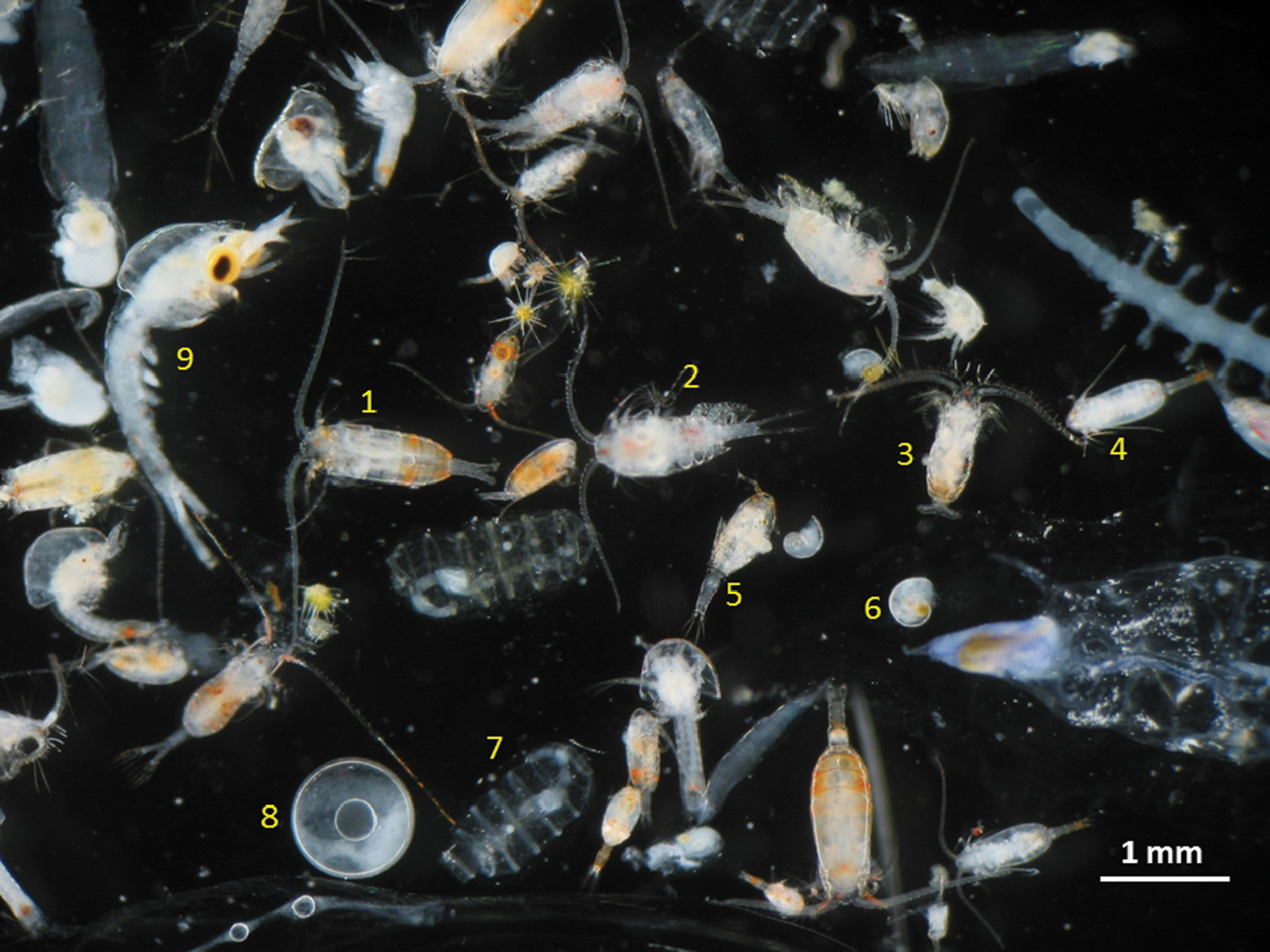 A mixed zooplankton sample with indicated some common taxa. Copepods: 1 Calanidae 2 Temora stylifera 3 Calocalanus 4 Clausocalanus 5 Oncaeidae 6 gastropod larva 7 doliolid 8 fish egg 9 decapod larva.